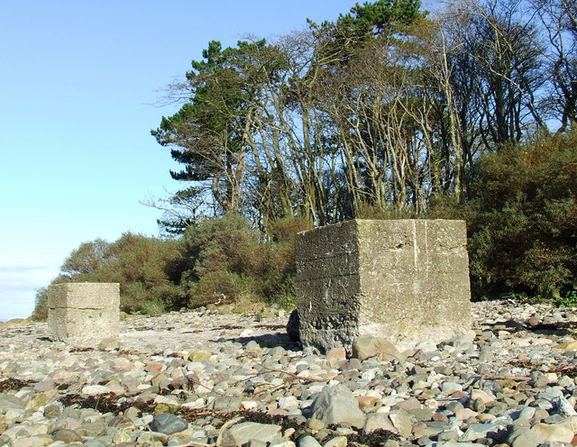 Concrete blocks On the rocky shoreline at Ardgowan Point. There are two blocks, each about 5 feet high. Origin unknown.